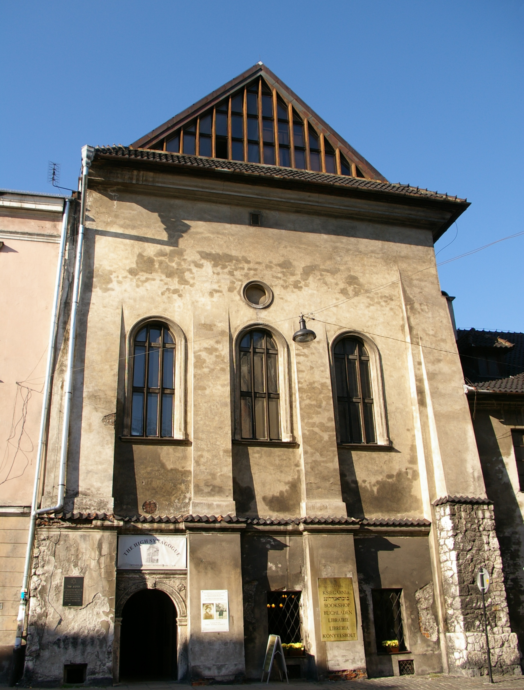 High Synagogue in Kraków